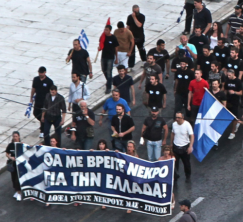 Golden Dawn demonstration in Athens June 27, 2012.